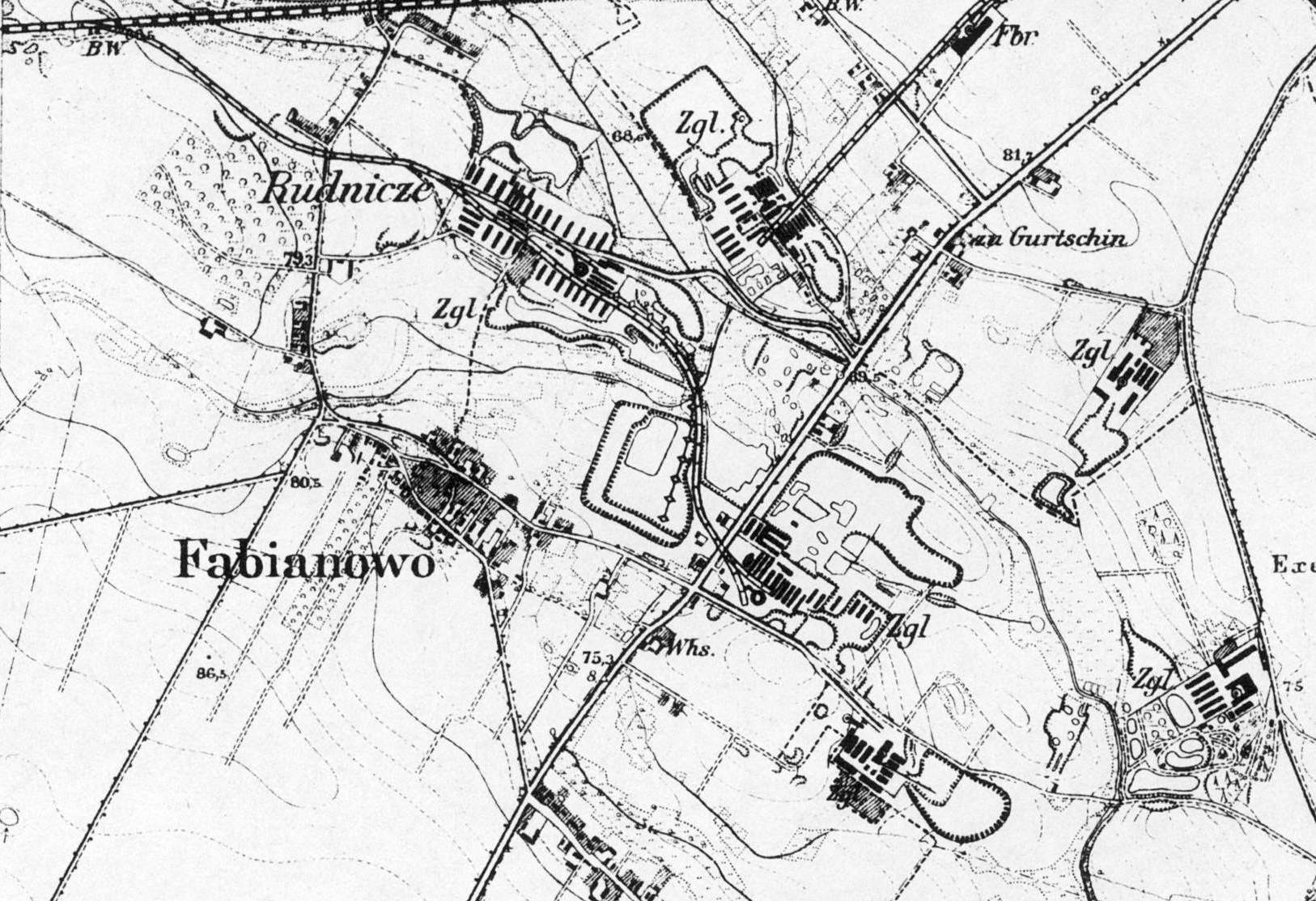 Poznan brickyards in 1919